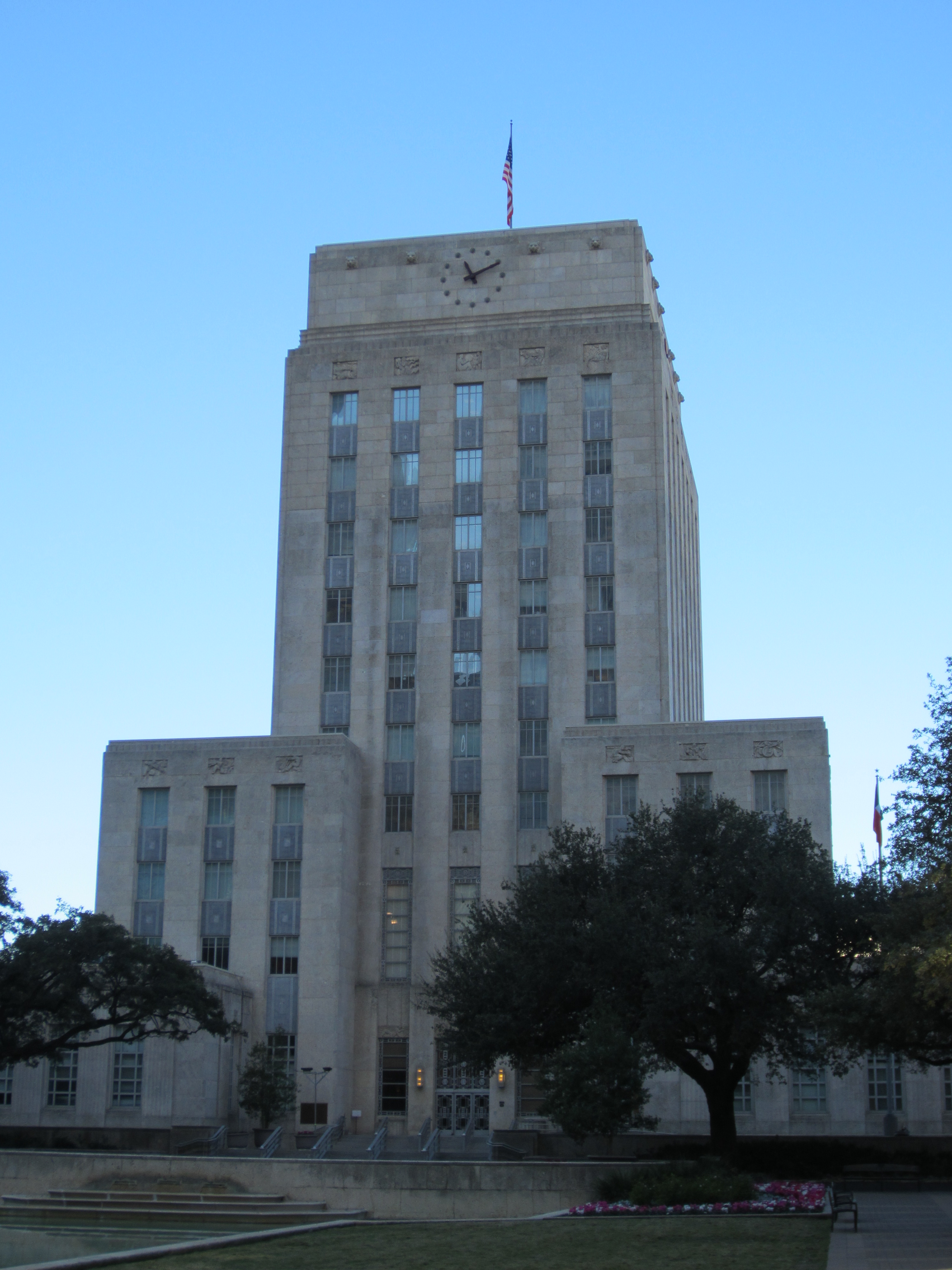 Houston City Hall in January 2012